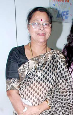 Seema Deo at the Audio release of Marathi film 'Janta'